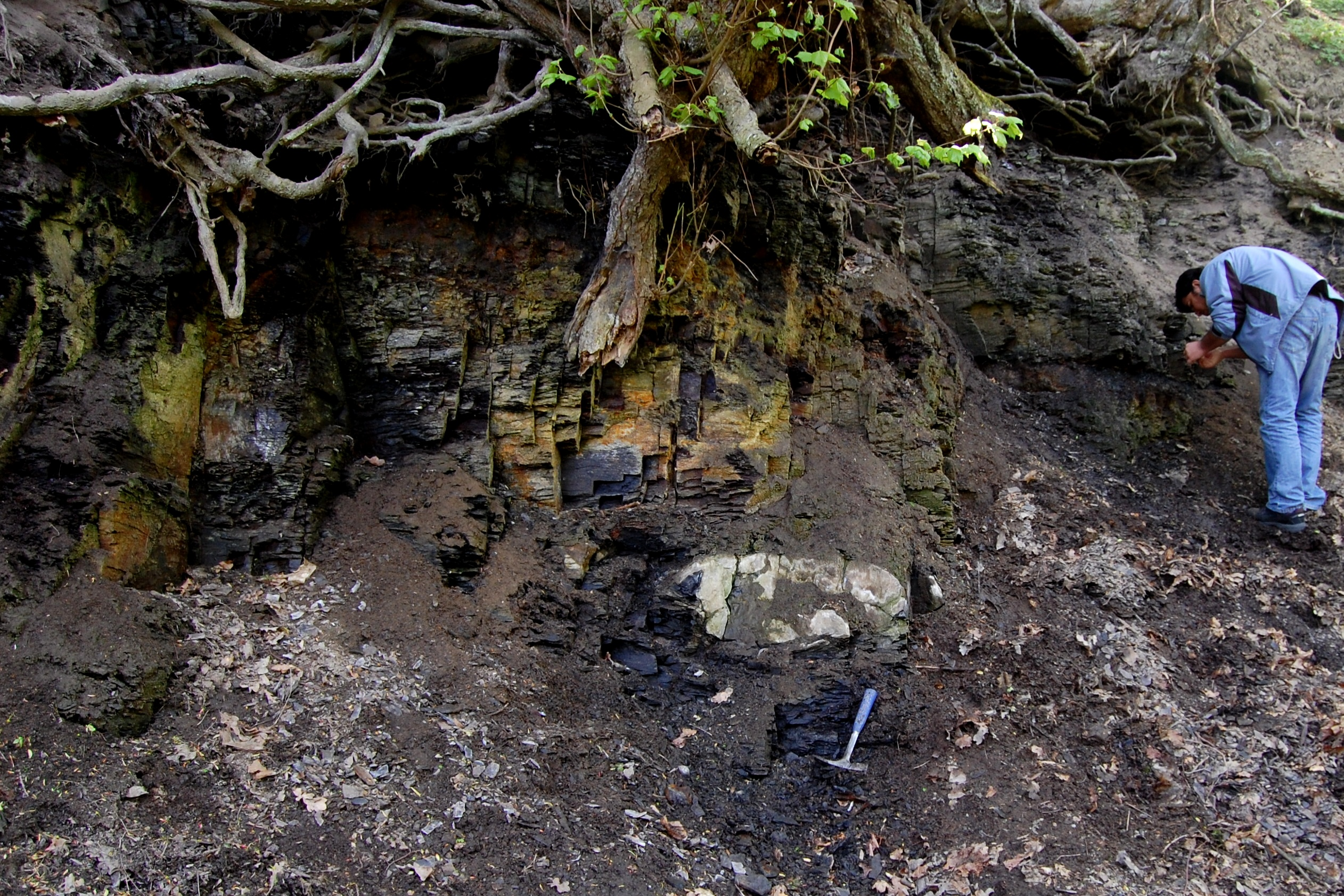 The GSSP of the Upper Ordovician Series and the Sandbian Stage. Hammer indicates the boundary, as identified by the FAD of Nemagraptus gracilis. Section E14b at Fågelsångsdalen nature reserve, some 2 km west of Södra Sandby, Lund Municipality, Skåne, Sweden.